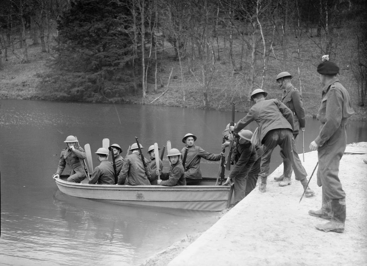 The British Army in the United Kingdom 1939-45 Men of the London Irish Rifles training in boat handling on a lake in Pippington Park, East Grinstead, April 1940.